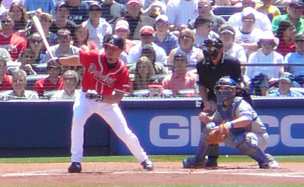 Chipper Jones, a Major League Baseball player in America